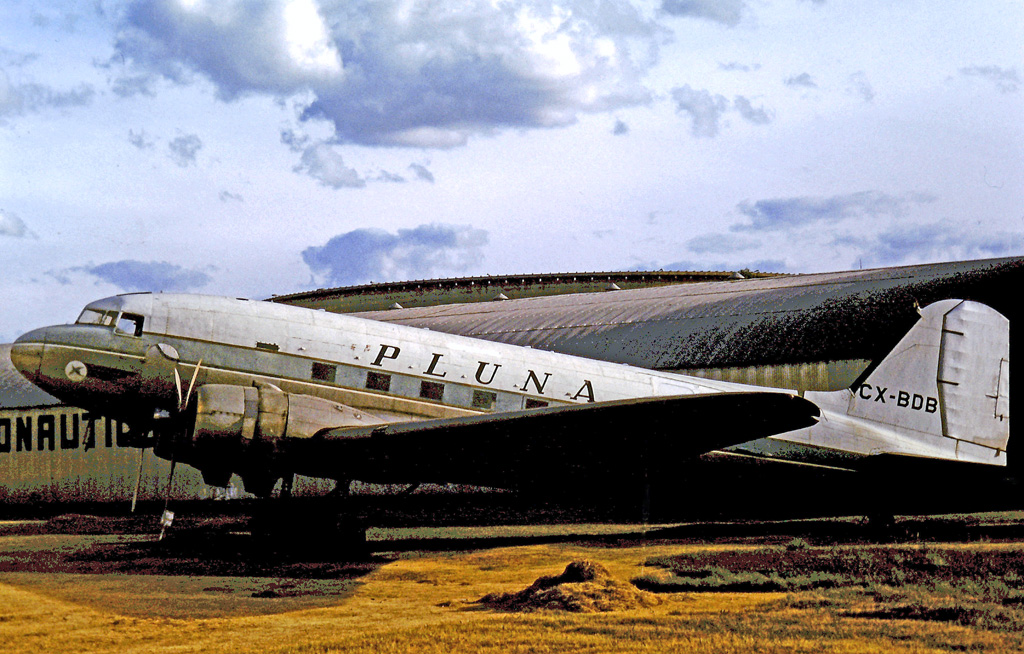 Douglas C-47B (DC-3) of PLUNA at Montevideo Uruguay in 1975